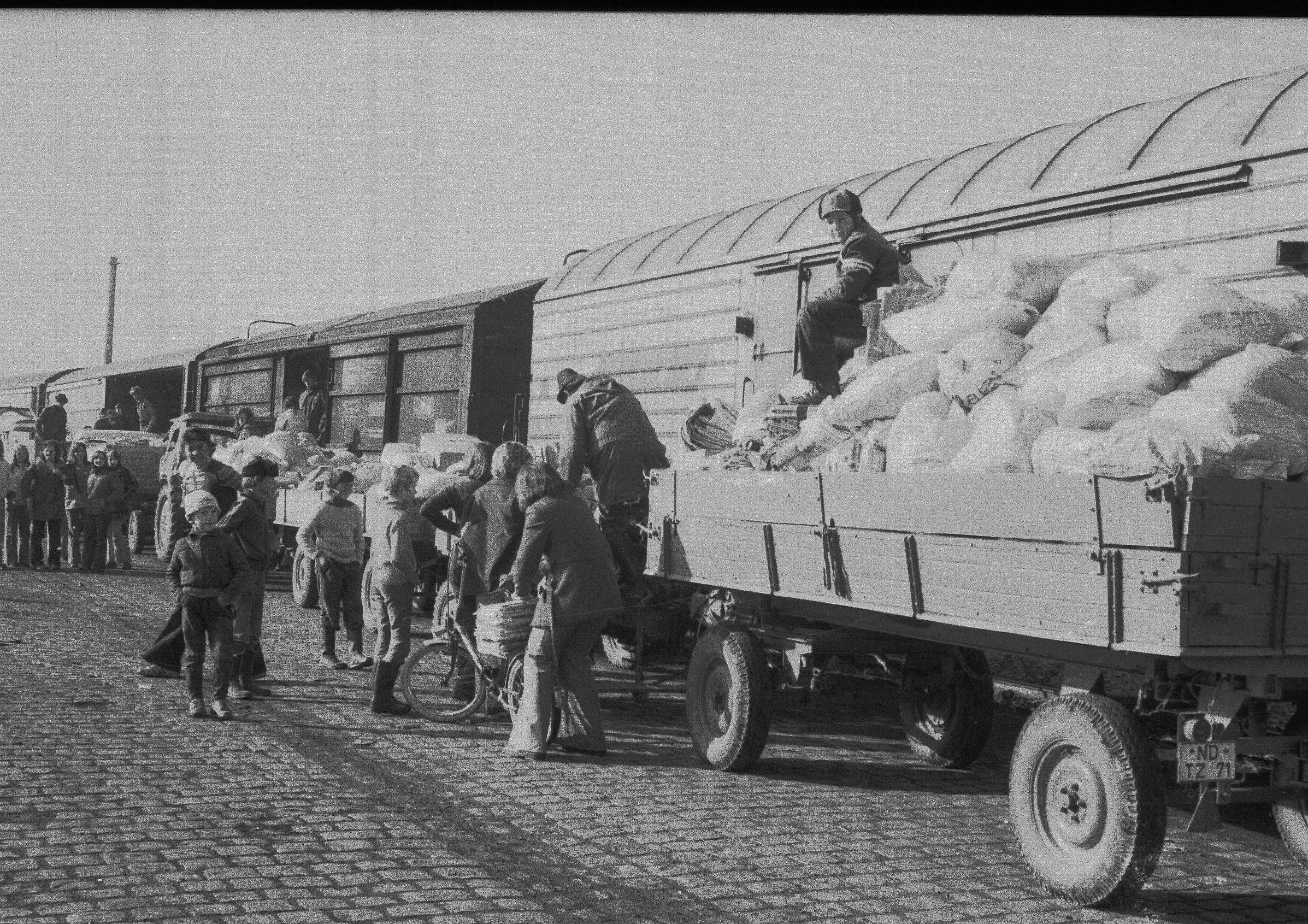 Massenbetrieb beim Kartoffelversand in Neuburg-Donau